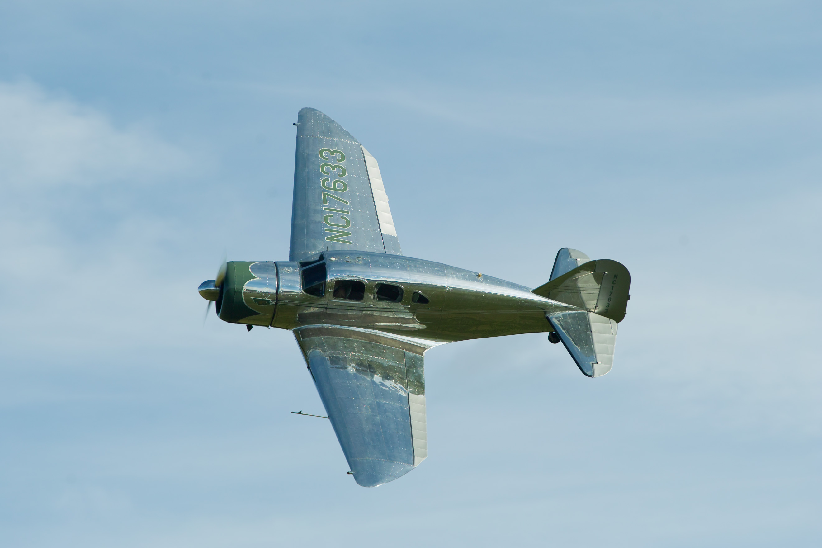 Spartan Executive (registration NC17633)) at Old Warden air display, 6 October 2013